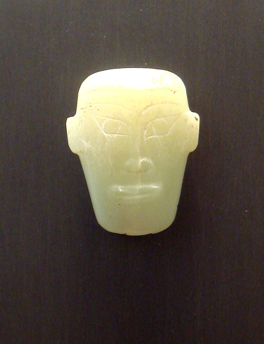 Shang or Zhou carved face, 14-10th century BCE, from the Musée Guimet in Paris.